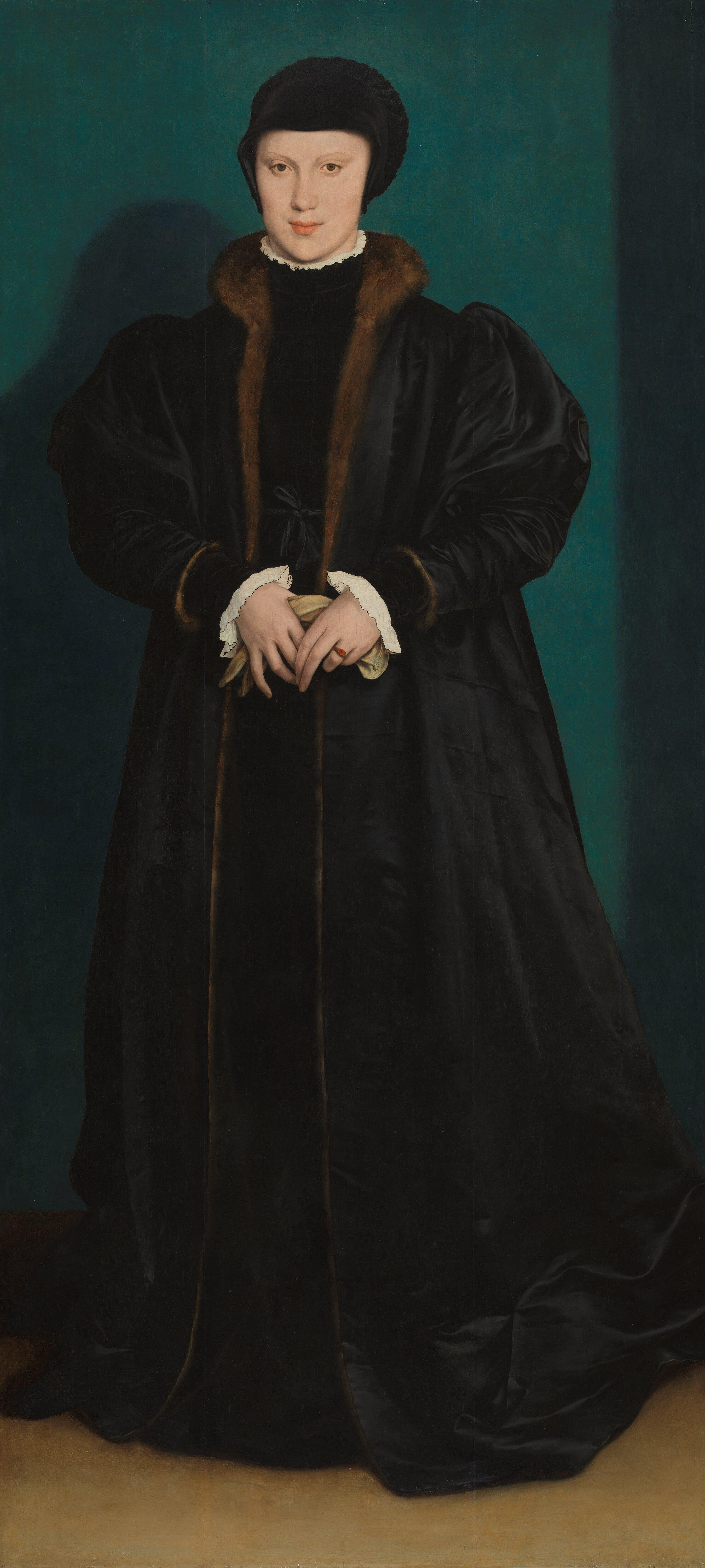 Holbein painted this portrait of Christina of Denmark, the young widowed Duchess of Milan, for Henry VIII of England, who was considering her as a possible wife. Thomas Cromwell sent Holbein to Brussels, accompanied by Philip Hoby, to draw the duchess, and she sat for him for three hours. John Hutton, the English representative in Brussels, wrote of the result that "Mr Haunce ... hathe shoid hym self to be the master of that siens [science], for it is very perffight". Henry was so delighted with Christina's portrait that, according to the imperial ambassador Eustace Chapuys, "since he saw it he has been in much better humour than he ever was, making musicians play on their instruments all day long". Holbein painted Christina's portrait in oils shortly afterwards, and the work has been recognised as one of his finest. In the event, Henry never secured the wary duchess as his wife. "If I had two heads," she said, "I would happily put one at the disposal of the King of England".